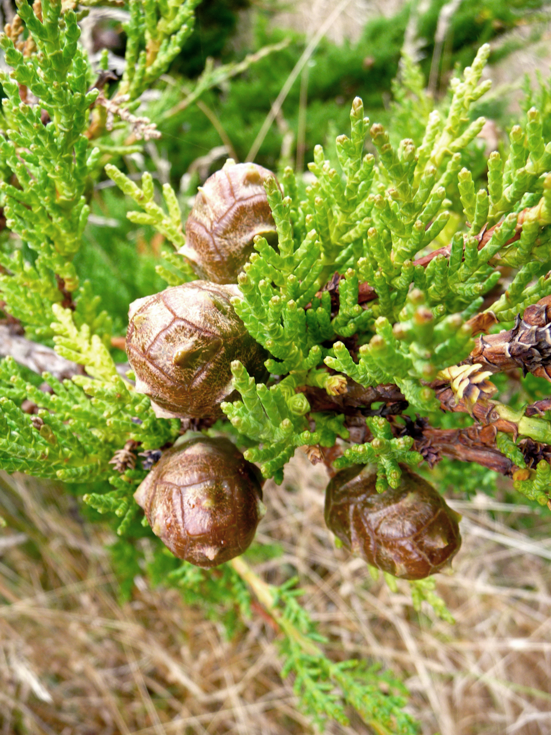 Cupressus pygmaea foliage and cones — in Mendocino, California.